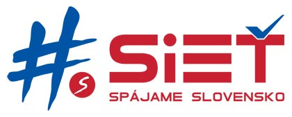 Logo of the slovak political party #SIEŤ